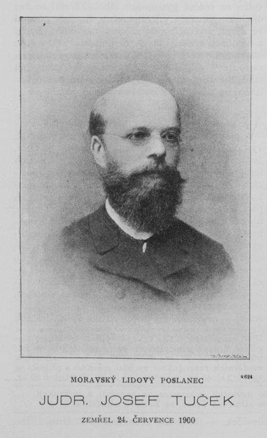 Portrait of Josef Tuček (1845-1900), Czech lawyer and politician from Moravia. Picture is watermarked by Unie-Vilím, printworks managed by Jan Vilím (1856-1923).